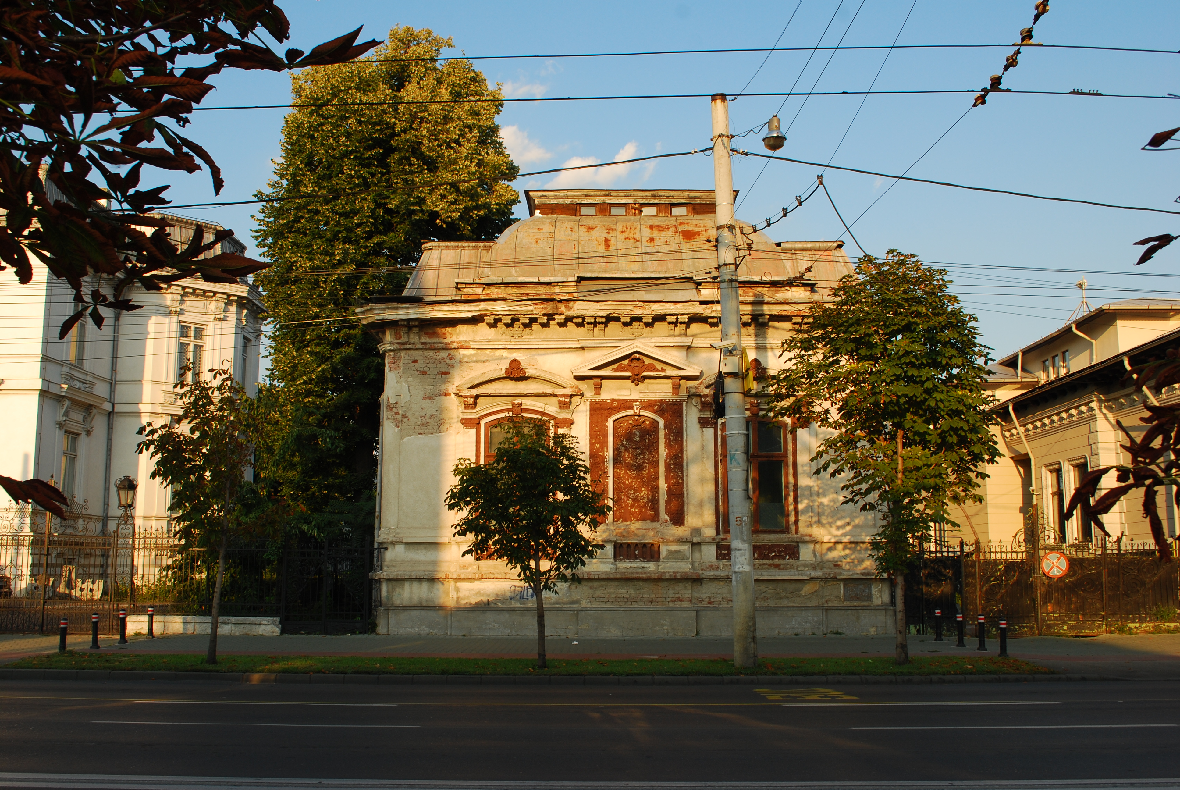 Dr. Constantin Vasiliu house, Ploieşti, RomaniaRomână: Casa dr. Constantin Vasiliu din Ploieşti, România